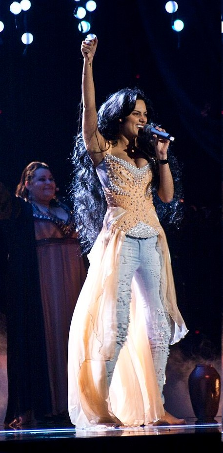 Eva Rivas representing Armenia at Eurovision Song Contest 2010 in Oslo, Norway.